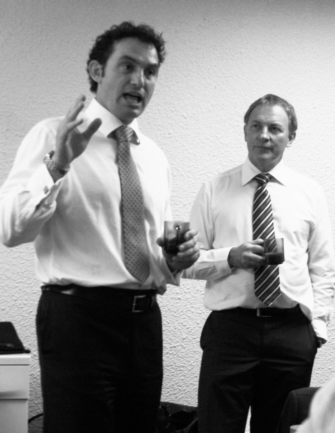 Stuart Nash and Phil Goff address community groups in Napier (2011)